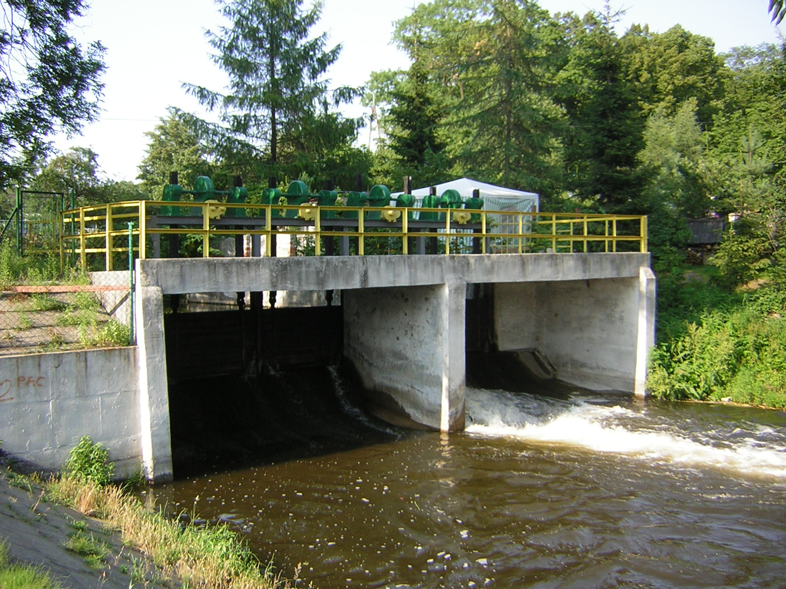 Weir in Iława